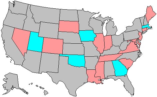 Summary of party change of U.S. house seats in the 1972 House election. Stripes indicate a tie between the gains of two or more parties. Legend: 6+ Democratic seat pickup 3-5 Democratic seat pickup 1-2 Democratic seat pickup 1-2 Republican seat pickup 3-5 Republican seat pickup 6+ Republican seat pickup Note: years ending in 2 may have inconsistent results due to redistricting.